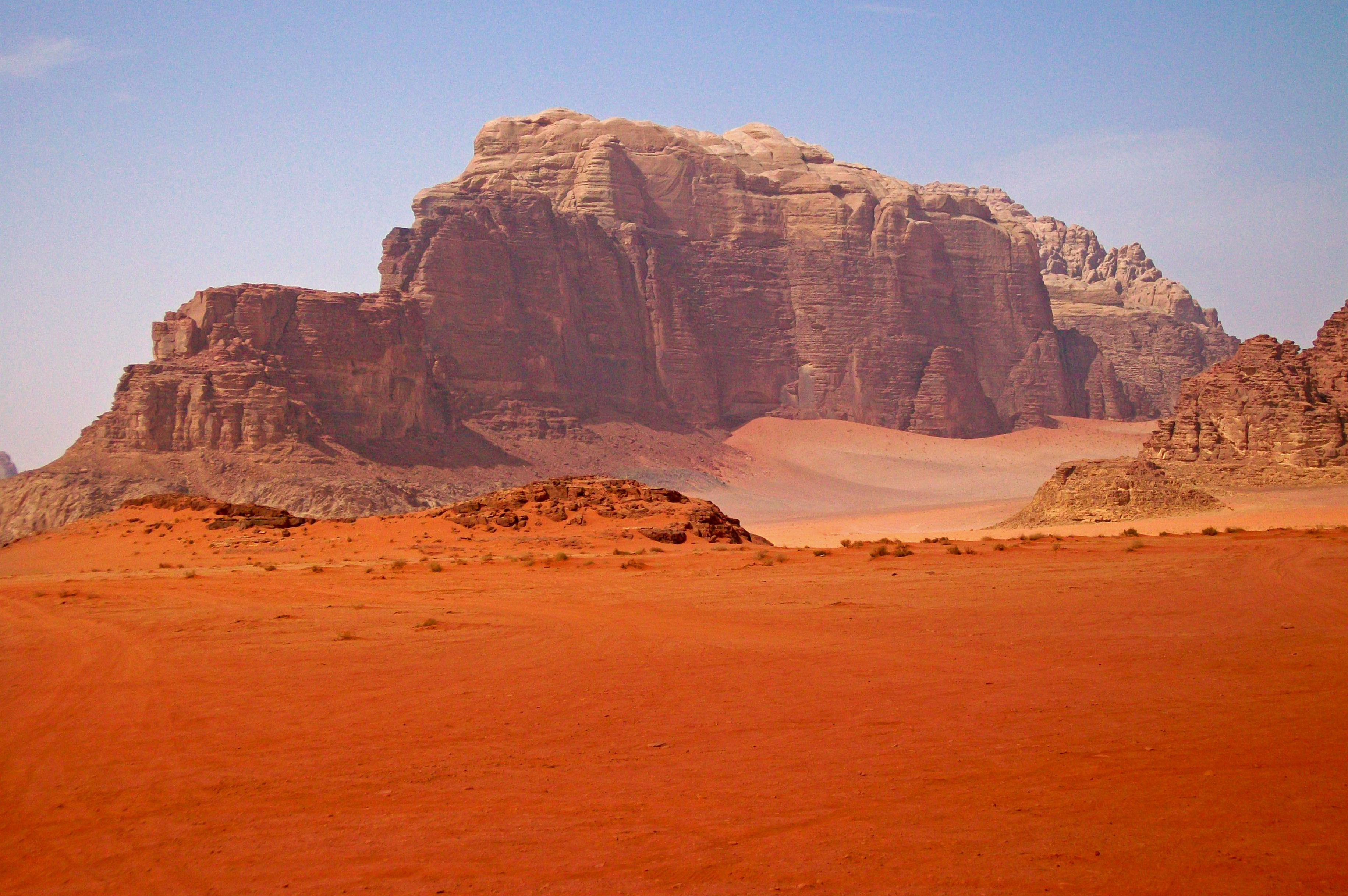 A mountain near the entrance to Wadi Rum in Jordan.